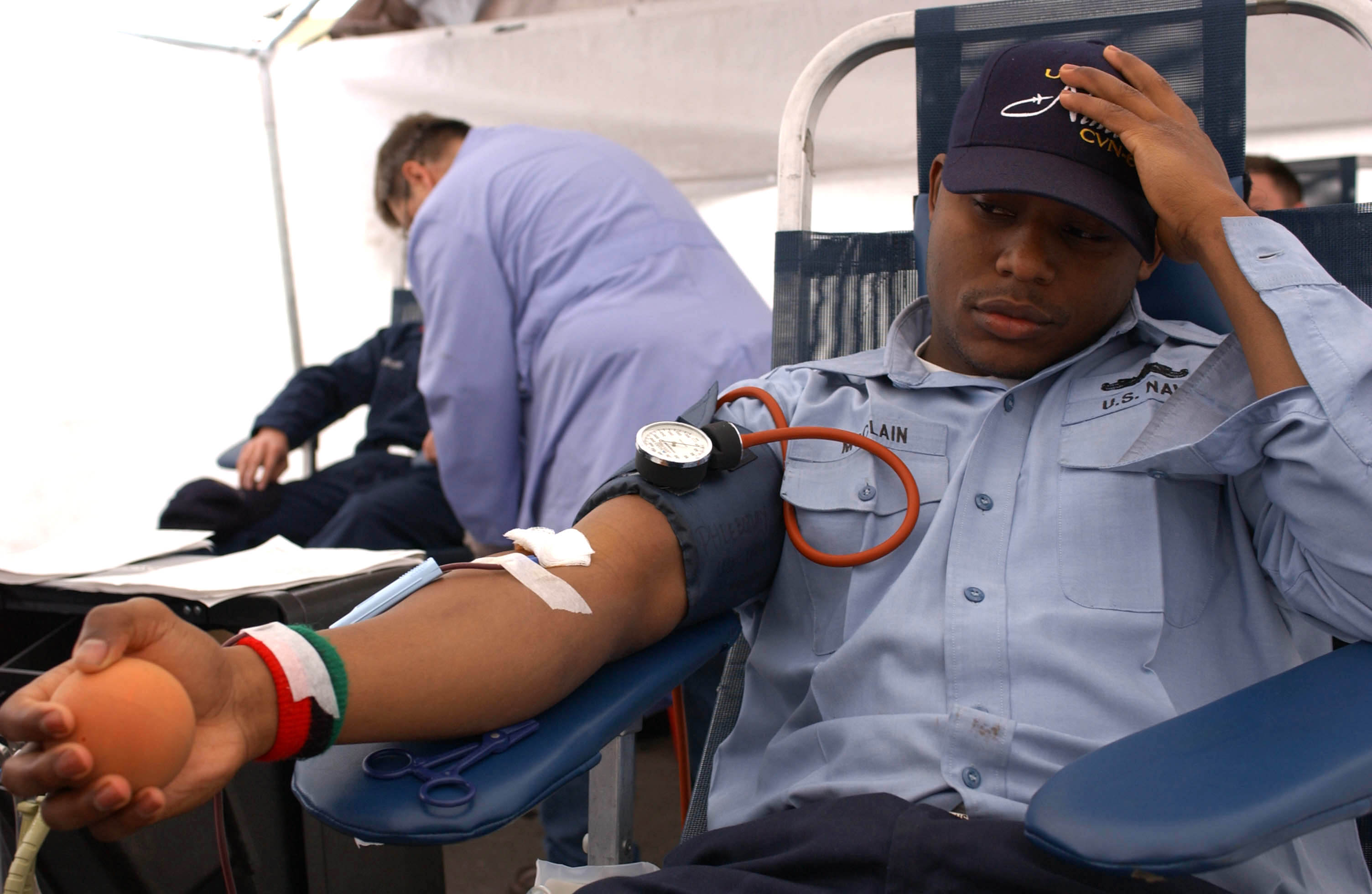 Naval Air Station North Island, Calif. (Feb. 20, 2004) – Operations Specialist Seaman Marlon McClain, of Los Angeles, Calif., donates blood during a USS Nimitz (CVN 68) command-wide blood drive on the pier next to the carrier. The U.S. Navy’s Mobile Blood Bank assigned to the Naval Medical Center San Diego, Calif., collected over 150 pints of blood, which will be used to help local hospitals and troops overseas. Nimitz is currently undergoing Planned Increment Availability (PIA). U.S. Navy photo by Photographer's Mate 2nd Class Tiffini M. Jones. (RELEASED)